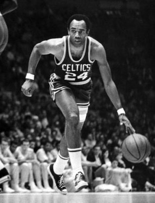 Former basketball player Sam Jones, playing a game during his tenure with the Boston Celtics.